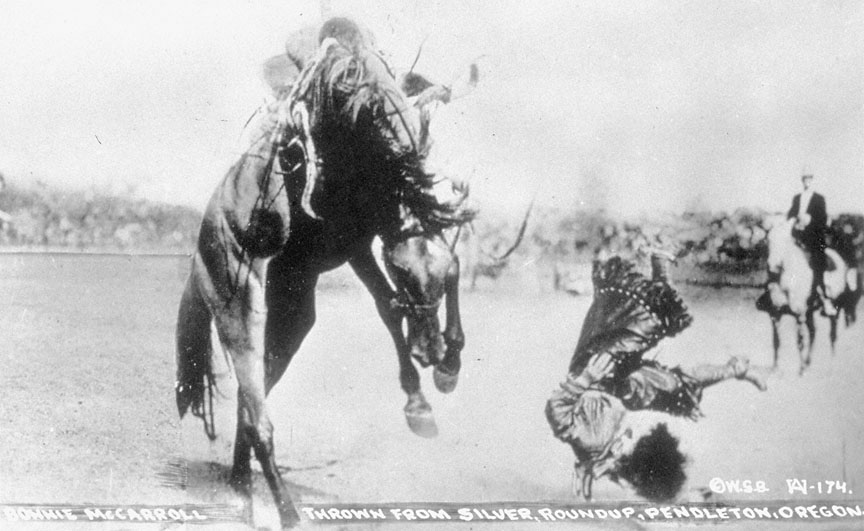 "One of the most famous rodeo snapshots ever taken is of Bonnie being thrown from a horse named Silver at the Pendleton Round-Up in 1915" The National Cowgirl Museum and Hall of Fame, Bonnie McCarroll